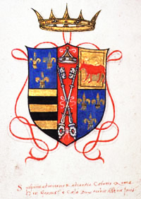 Cesare Borgia's coat of arms as Duke of Valentinois, Duke of Romagna and Captain-General of the Church.